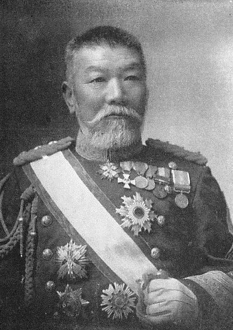 Naoharu Osako